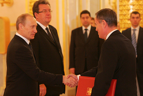 THE KREMLIN, MOSCOW. The Ambassador of Romania, Constantin Mihail Grigorie, presents his credentials to the President of Russia.